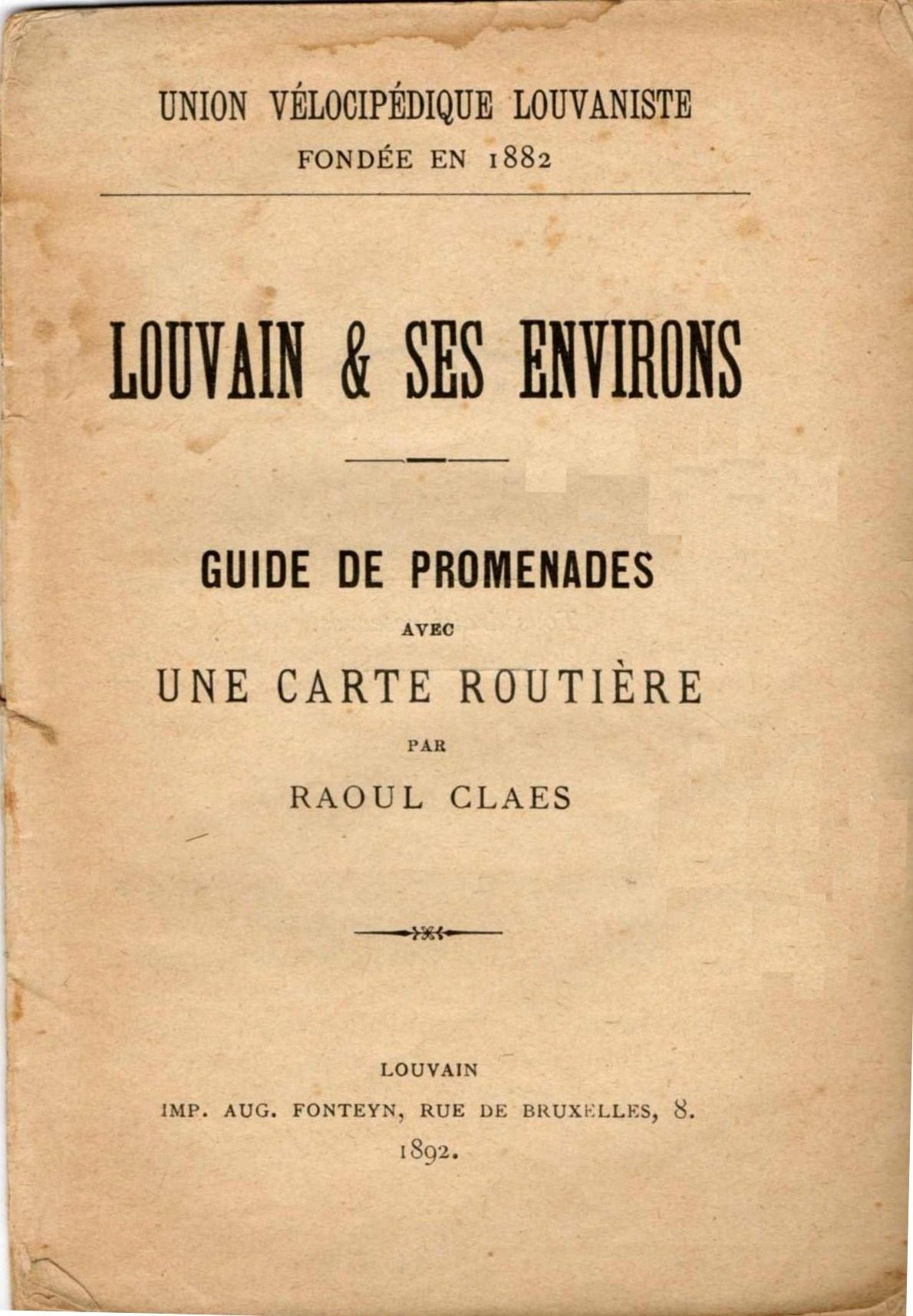 Book "Louvain & surroundings" a guide for cyclists. by Raoul Claes 1892